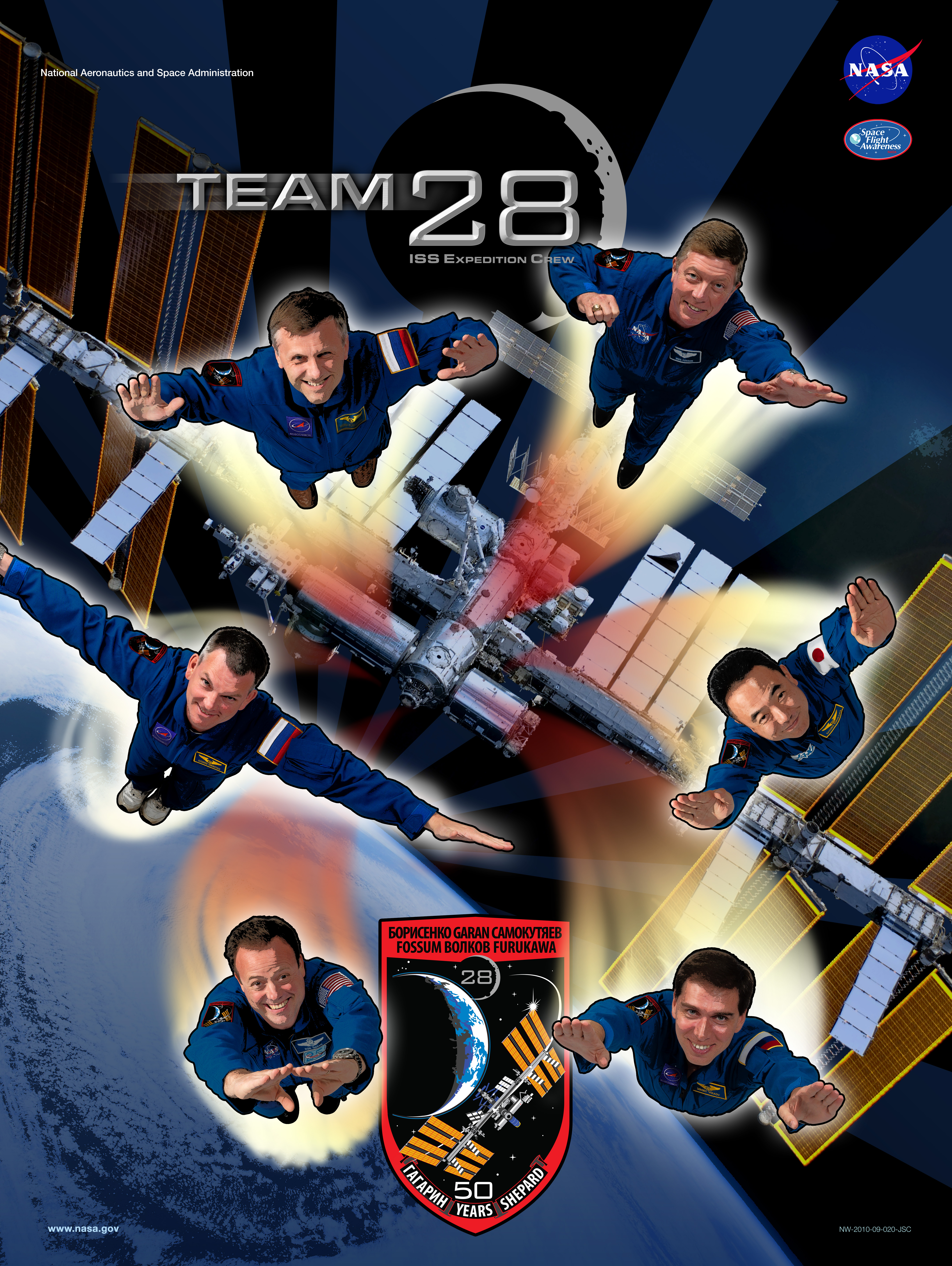 Expedition 28 NASA Space Flight Awareness crew poster